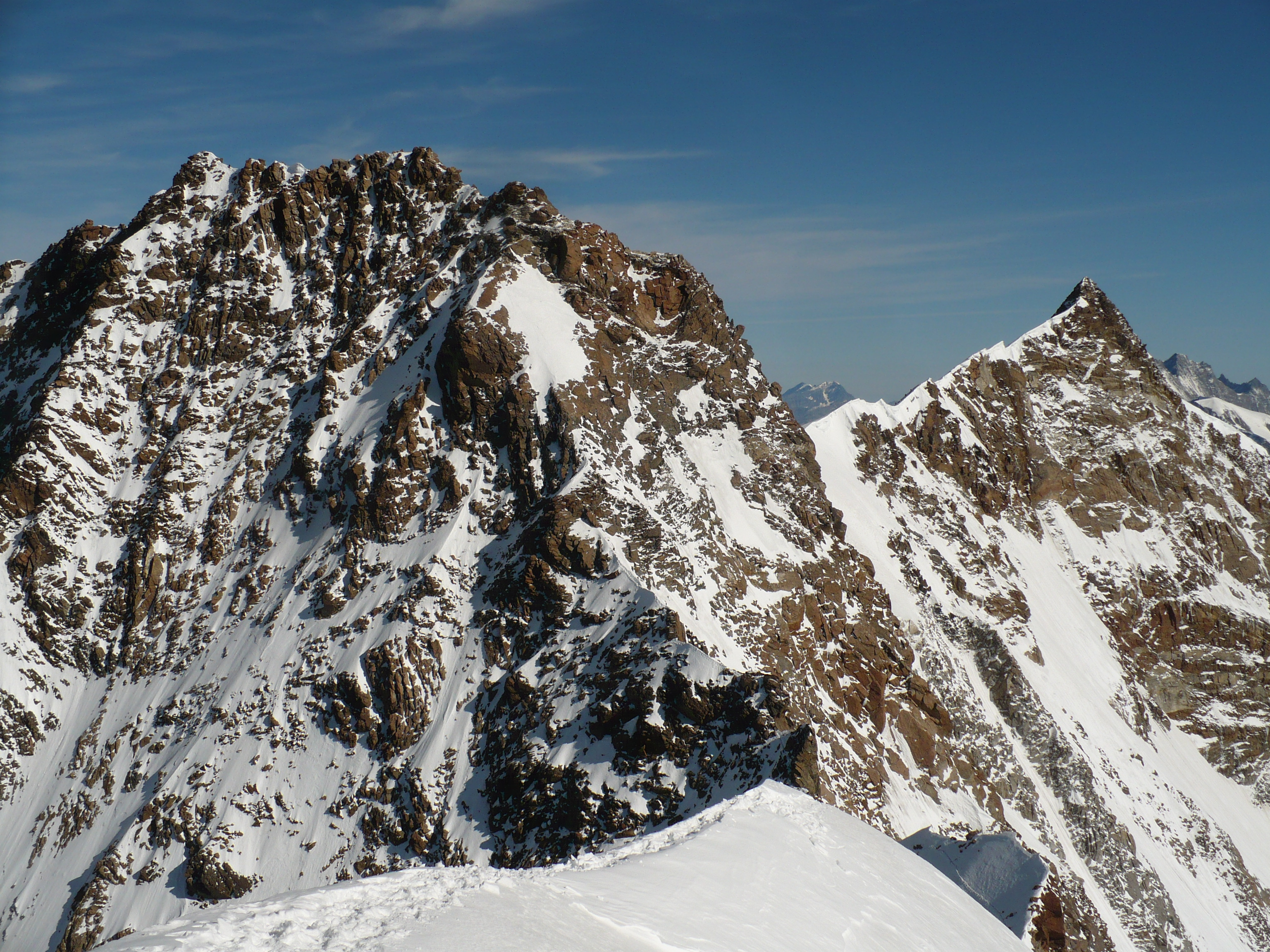 Dufoursptze and Nordend fron Zumsteinspitze - Monte Rosa massif - Pennine Alps